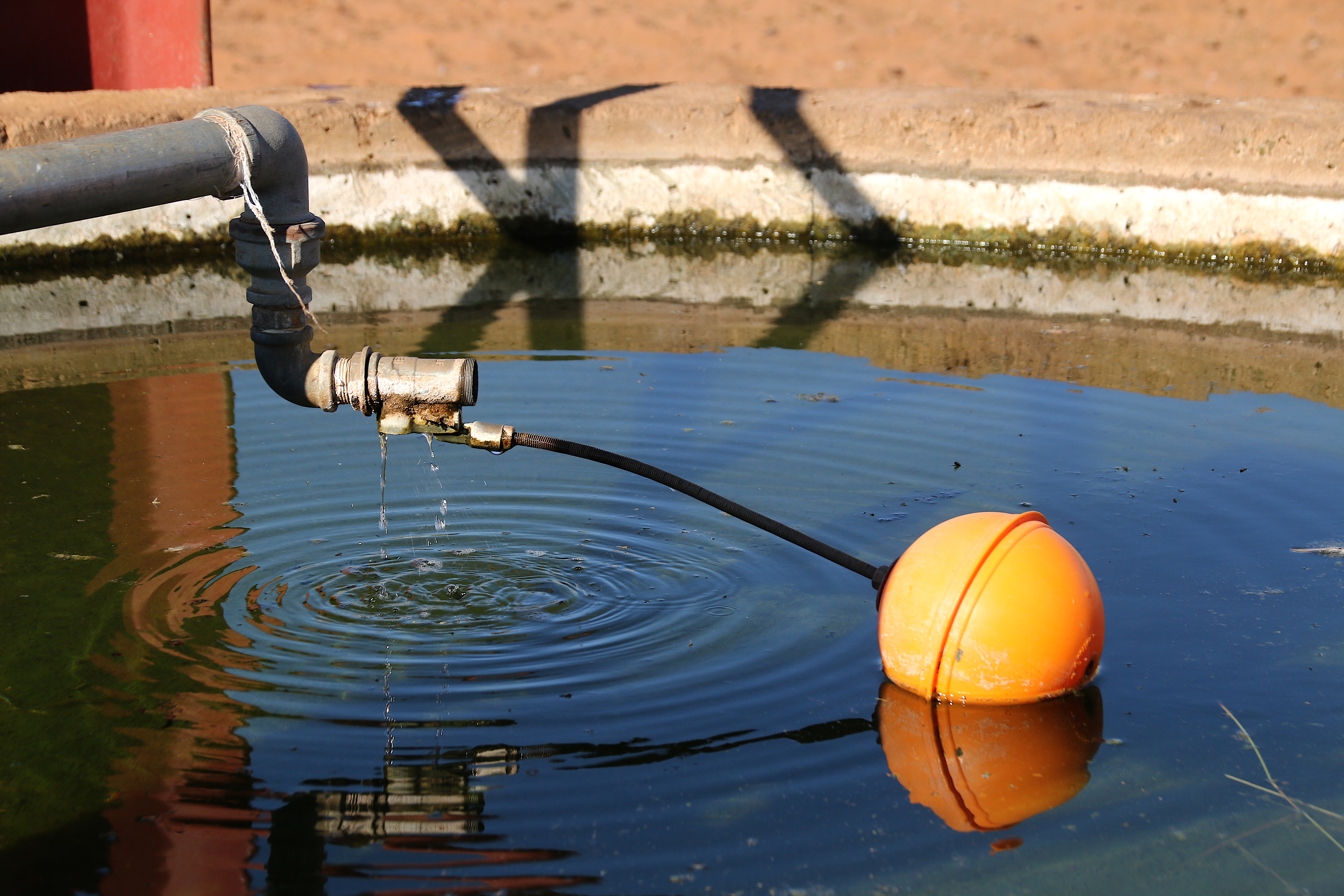 Mechanical float switch waterpool